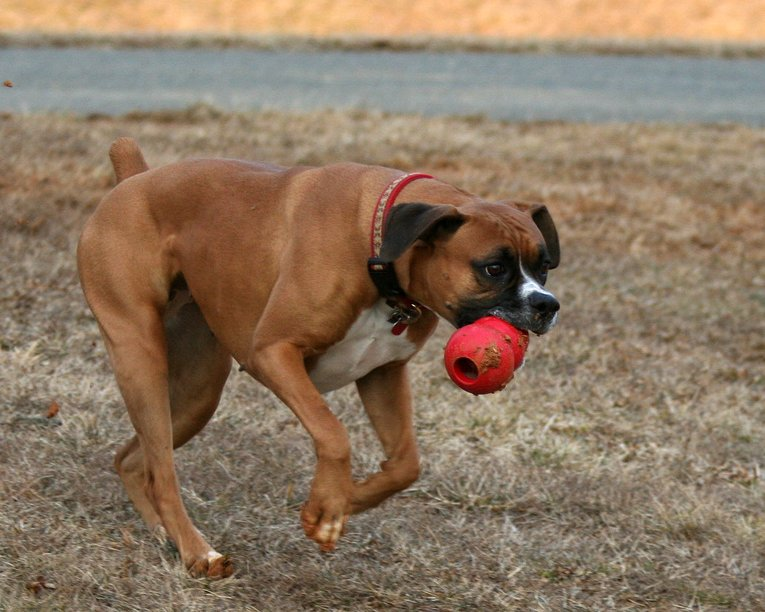 cropped version